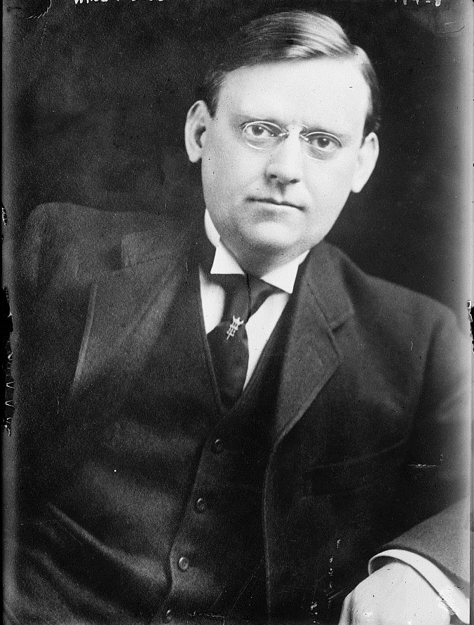 Wade H. Ellis, Lawyer from Ohio, transplanted to Washington D.C. in 1908.